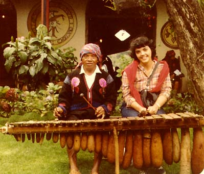 Traditional Highland Guatemalan Marimba with resonating gourds. I took this photograph in Chichicastenango, Guatemala in 1980 and hereby release it to Wikipedia and the public domain. -- Infrogmation 01:22 Dec 5, 2002 (UTC) source: Photo by Infrogmation (talk). Previously uploaded at Other versions: Higher resolution scan from same original, under somewhat more restrictive license: File:GuatemalanMarimbaGourdsChichicastenango.jpg